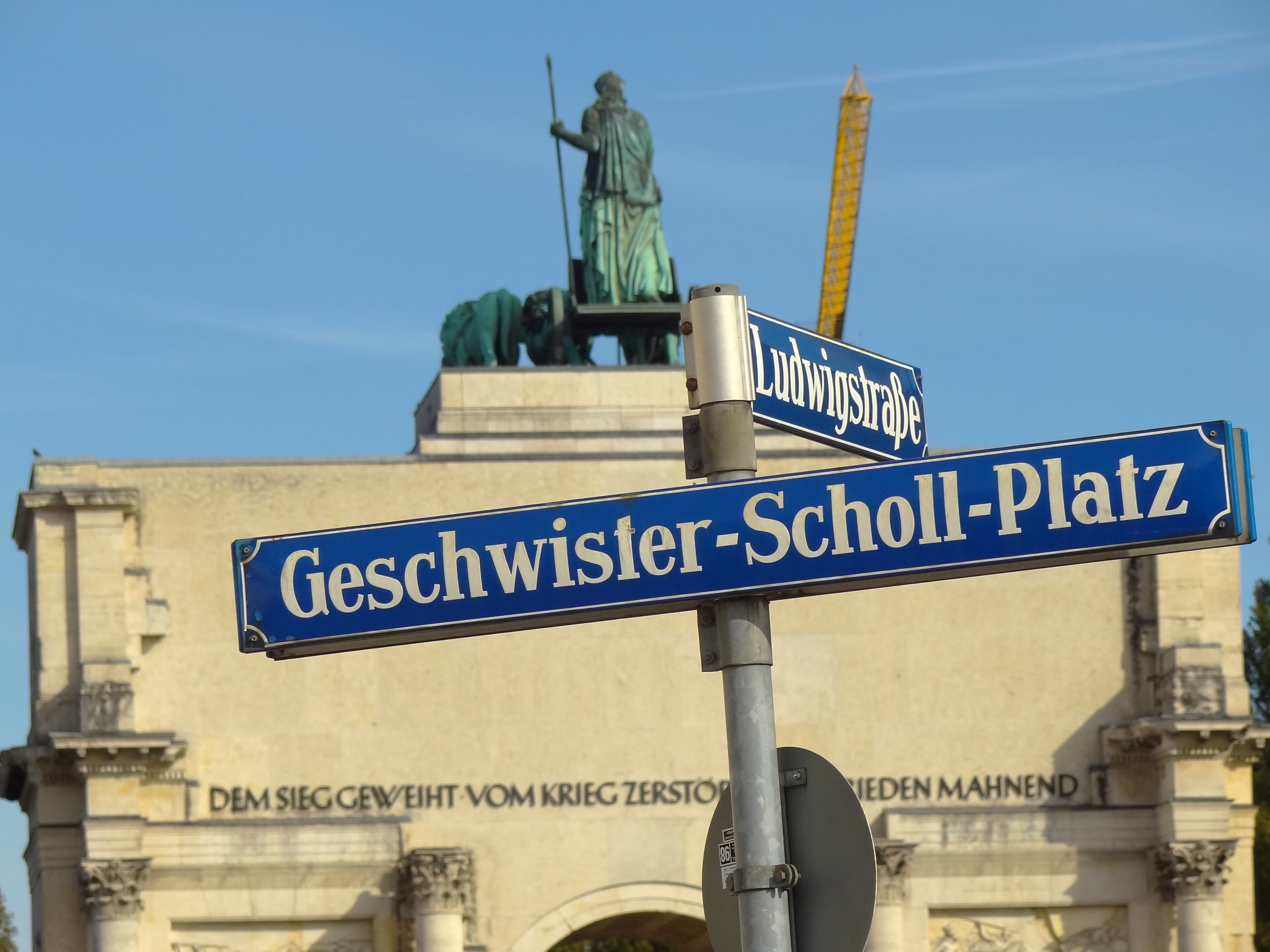 Geschwister-Scholl-Platz - Scholl Siblings Plaza - Outside Ludwig-Maximilians-Universitat - Munich - Germany